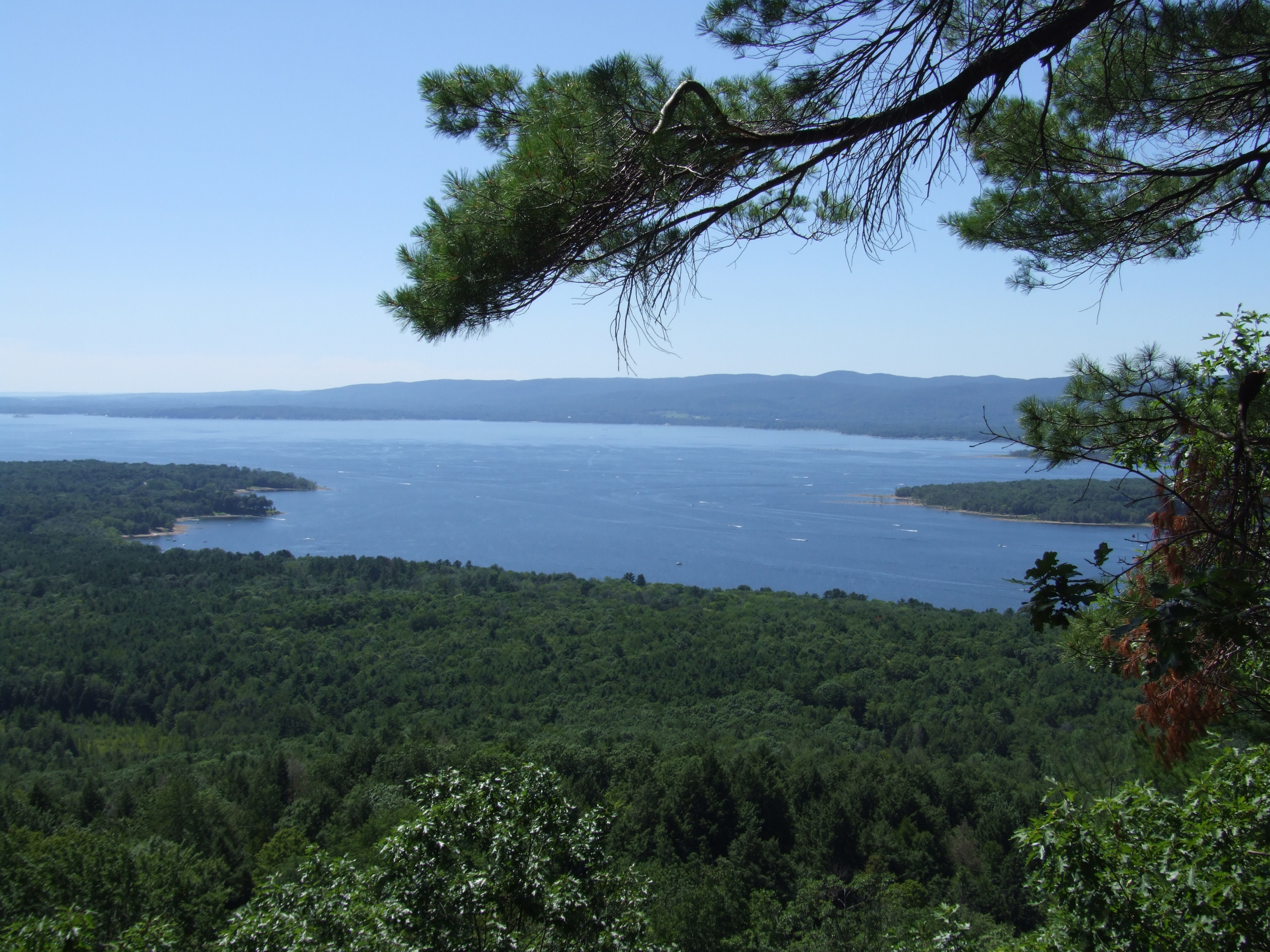 The Great Sacandaga Lake viewed from an overlook in 2007